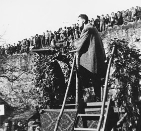 Silvius Magnago arringa la folla a Castel Firmiano